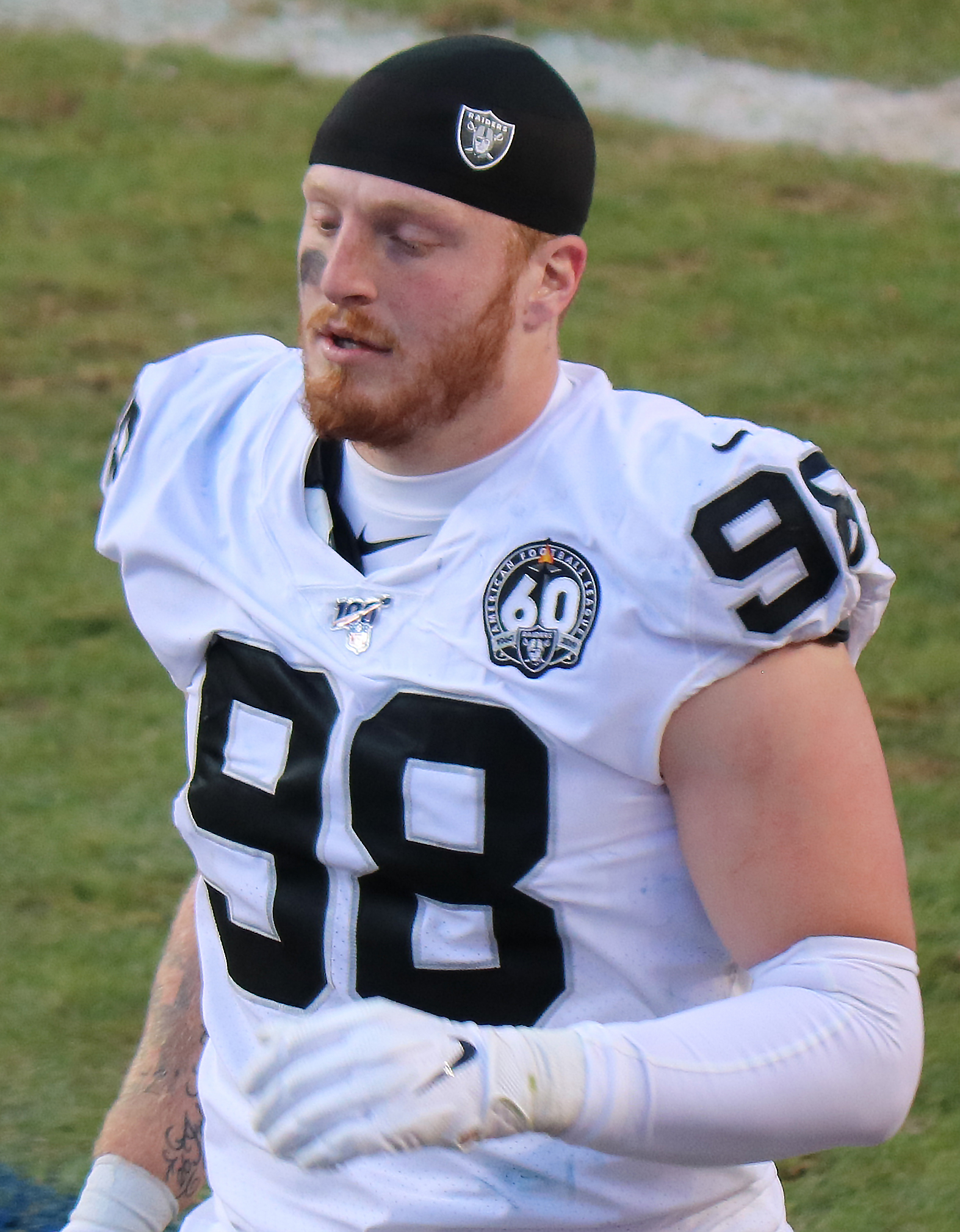 Maxx Crosby, a National Football League player.